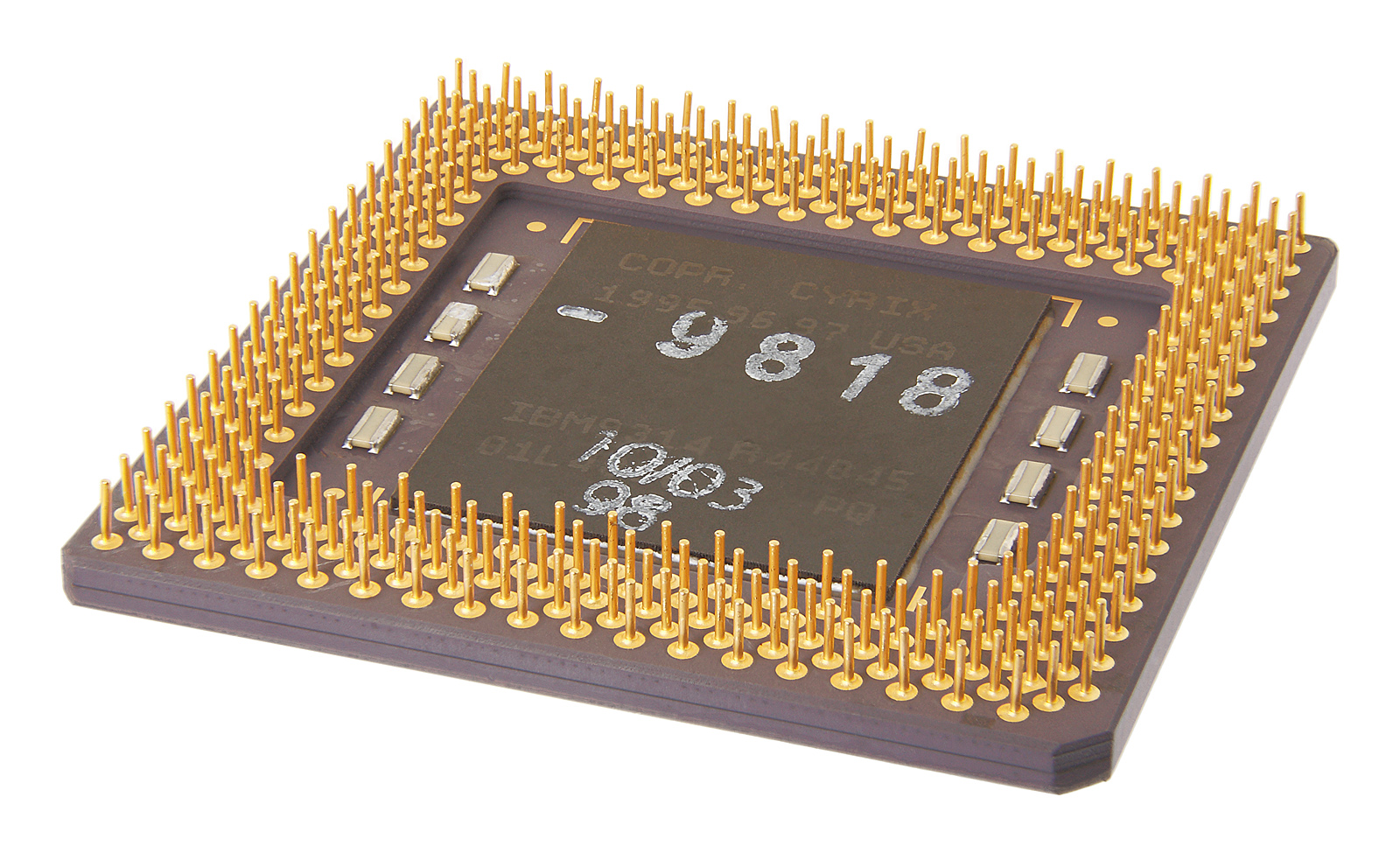 Bottom view of a Cyrix central processing unit 6x86MX type core, PR200 model, manufactured by IBM in 1998. Socket 7 321-pin SPGA, 0.35 µm process, core frequency 166 MHz, FSB frequency 66 MHz, size 49.5 x 49.5 x 7 mm.